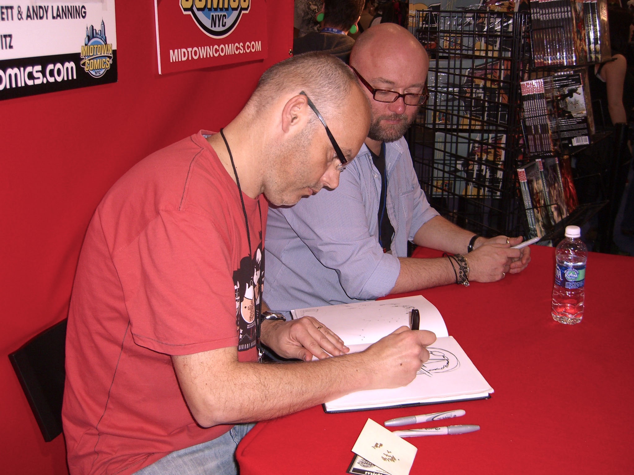 Comic book creators Andy Lanning (foreground, doing an Iron Man sketch) and Dan Abnett, at the Midtown Comics booth at the New York Comic Convention in Manhattan, October 10, 2010. Photo by Luigi Novi. This photo may be used, modified and published for any purpose, only if a easily visible credit to the photographer is placed near the photo in each instance in which it is used. (See licensing information below.) Publication of this photo without this proper attribution constitute copyright infringement. For more information on my photos, you can contact me here.